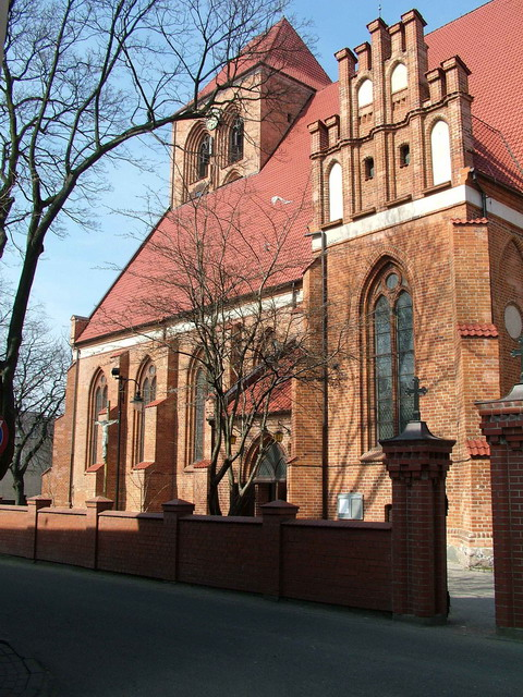 from Polish wikipedia by [1]